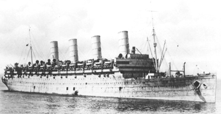 RMS Aquitania Source: This photo is stated to be in the public domain; the Maritime Digital Archive Encyclopedia there is stated to use the GNU Free Documentation License.